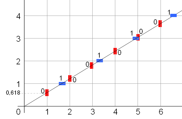 Characterization of the Fibonacci word by a cutting sequence. Such words are called "sturmian words".